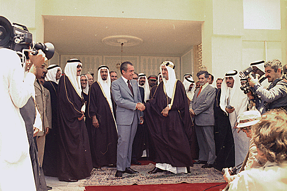 President Nixon shaking hands with King Faisal of Saudi Arabia following talks at Riasa Palace , 07/15/1974, Prince Faqqaz (Governor of Mecca, wearing glasses) ,?, Richard M. Nixon, King Faisal - ARC Identifier: 194585 - Item from Collection NS-WHPO: White House Photo Office Collection, 01/20/1969 - 08/09/1974